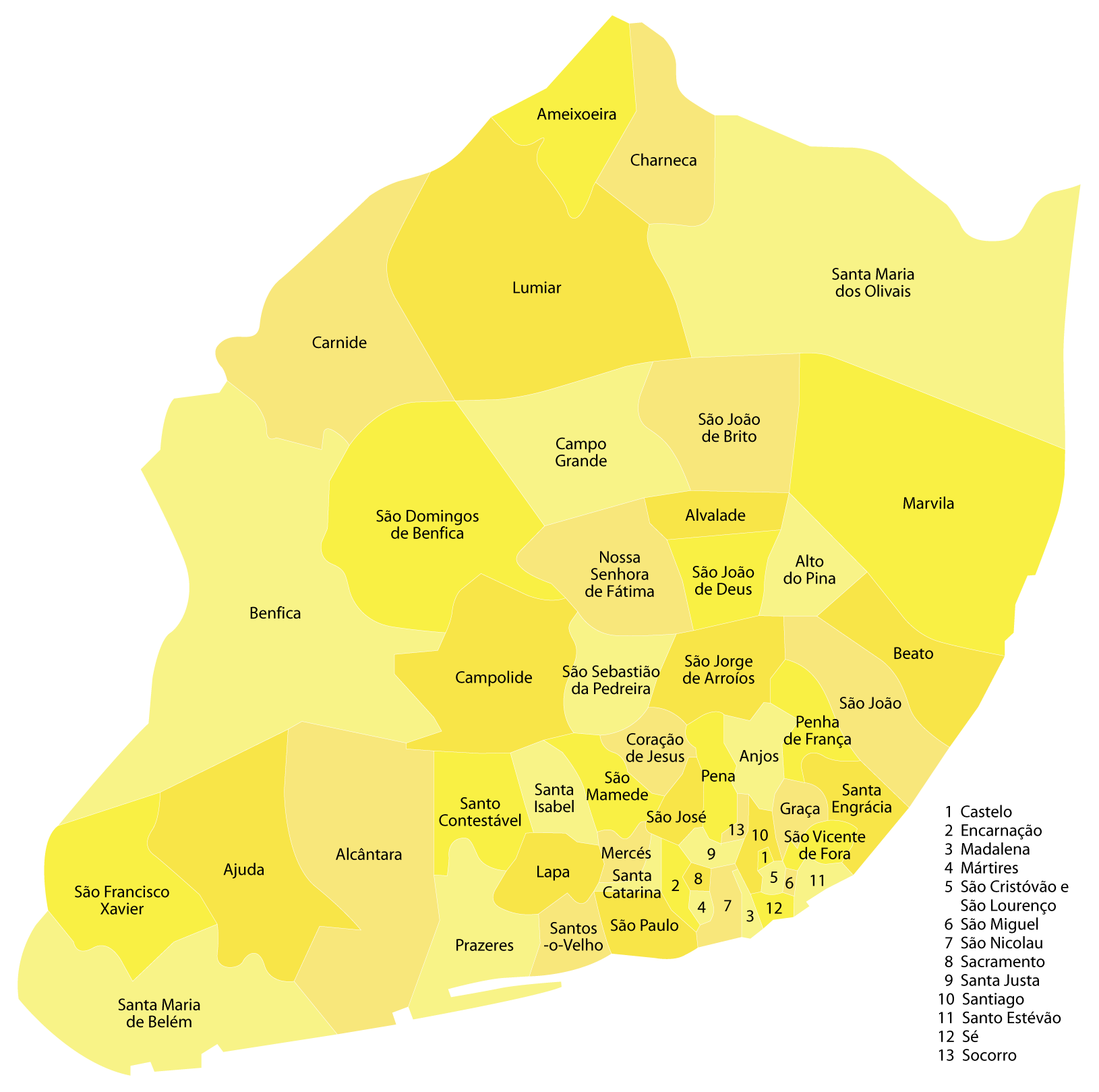 Map of the civil parishes of Lisbon